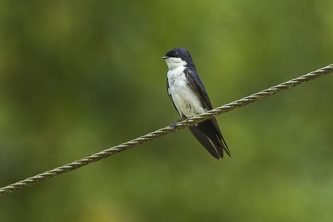 Blue-and-White Swallow - Brazil_S4E0493